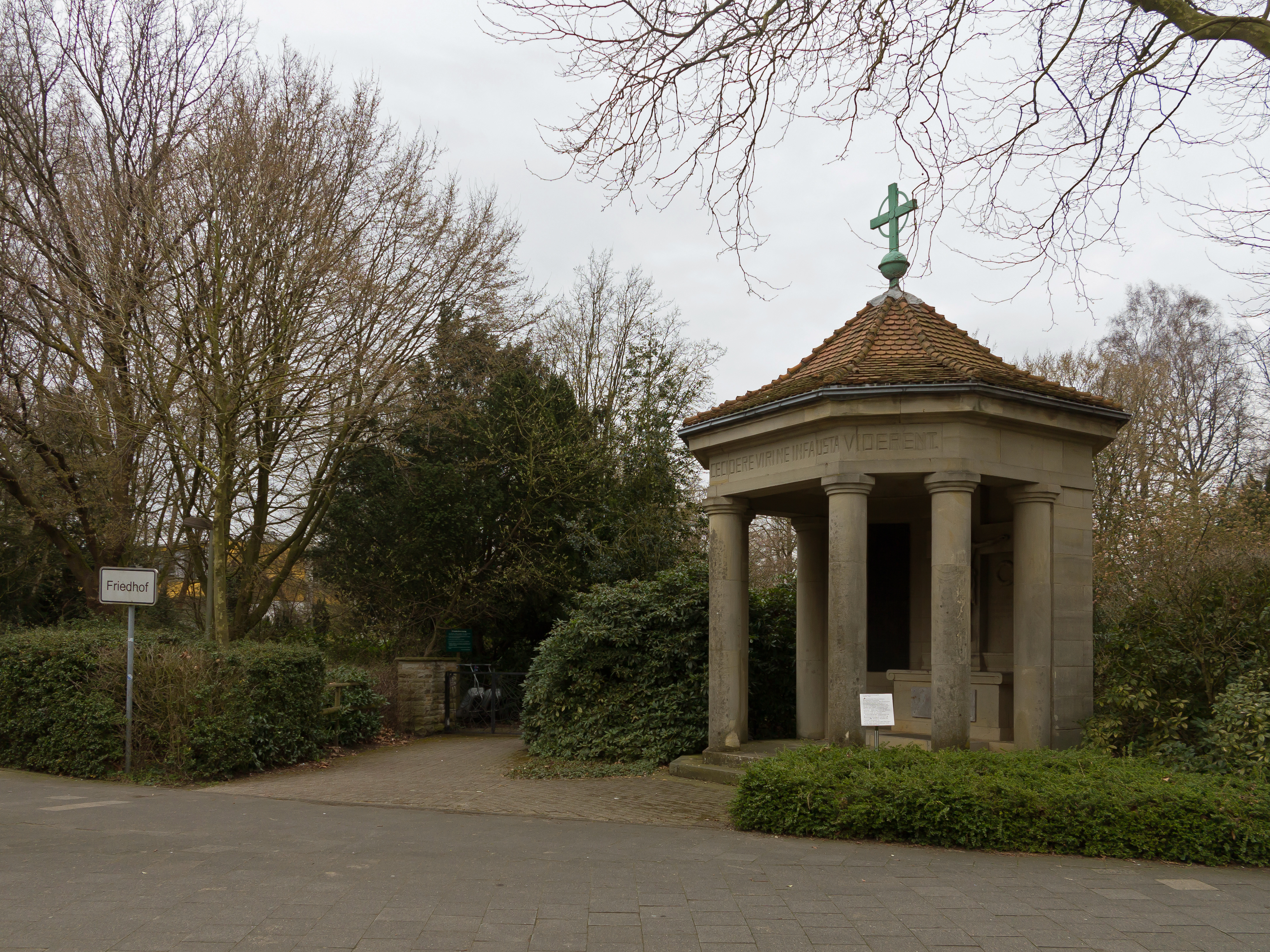 Havixbeck, chapel: Kriegersgedächtniskapelle